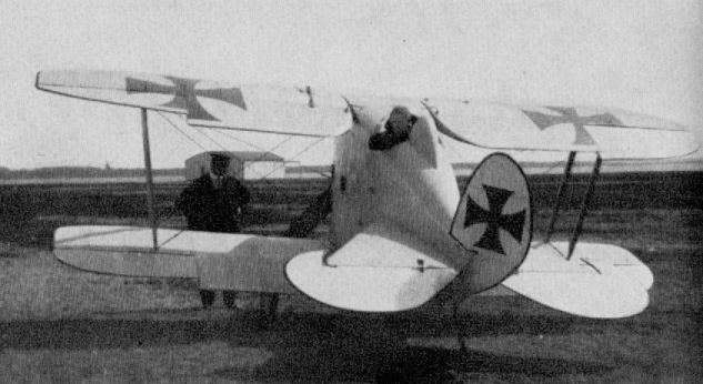 Photo of DFW T.28 Floh WW1 fighter samf4u, 2.jpg